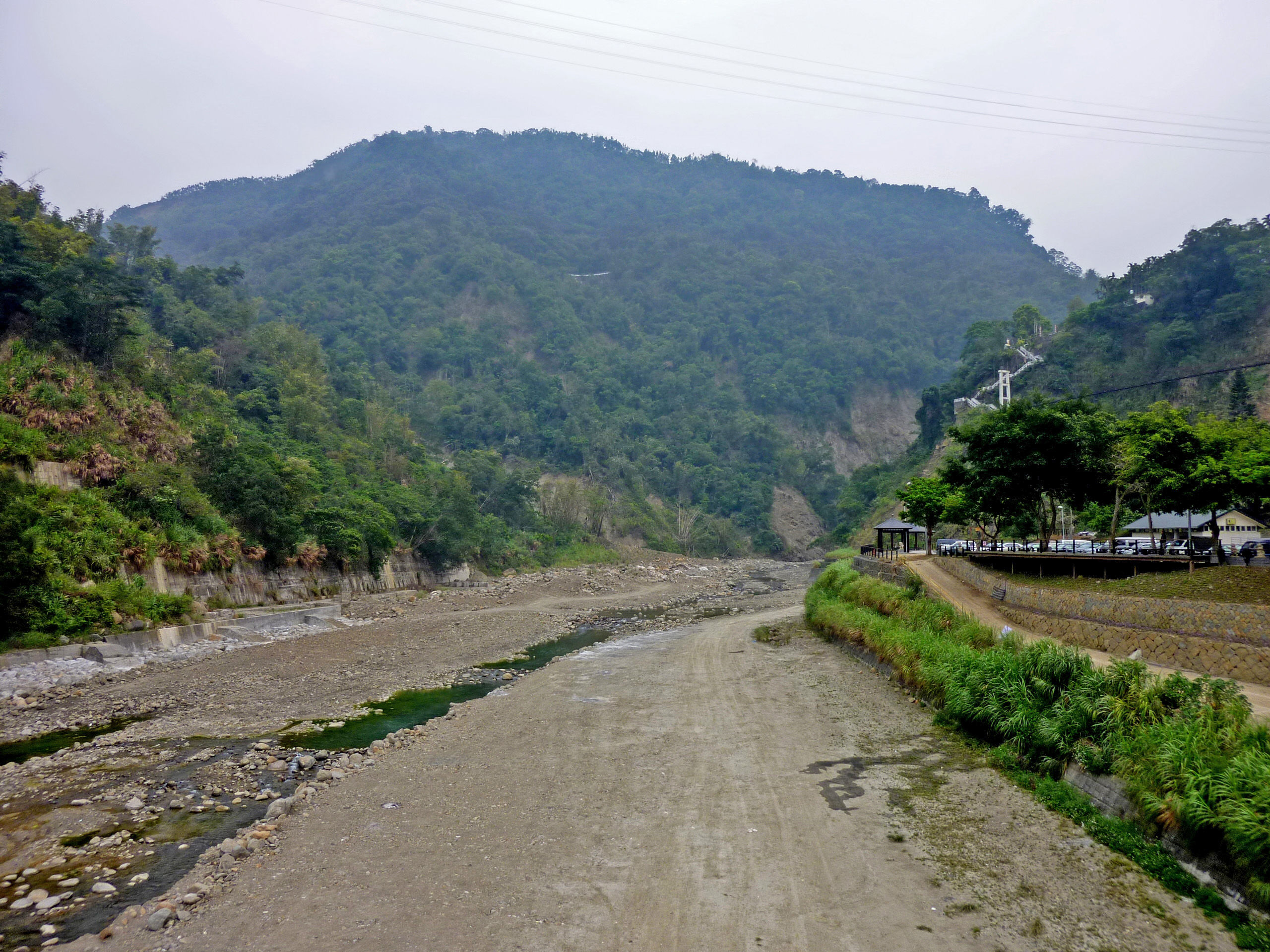 Bajhang River in Chukou, Taiwan